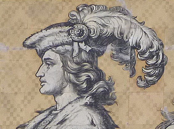 Frederick II, Margrave of Meissen (1324–1349); Fürstenzug, Dresden, Germany